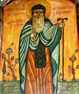 Saint Macarius the Elder, or Macarius the Egyptian (circa 300-390 CE), was a disciple of Antony and founded a monastic community that settled in the Nitrian and Scetic deserts. The community had thousands of members by the time of Macarius's death.